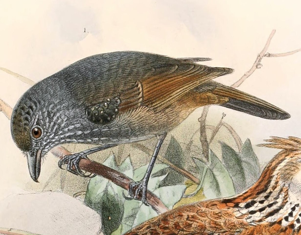 « Dysithamnus tucuyensis » = Dysithamnus leucostictus tucuyensis (Subspecies of White-streaked Antvireo)